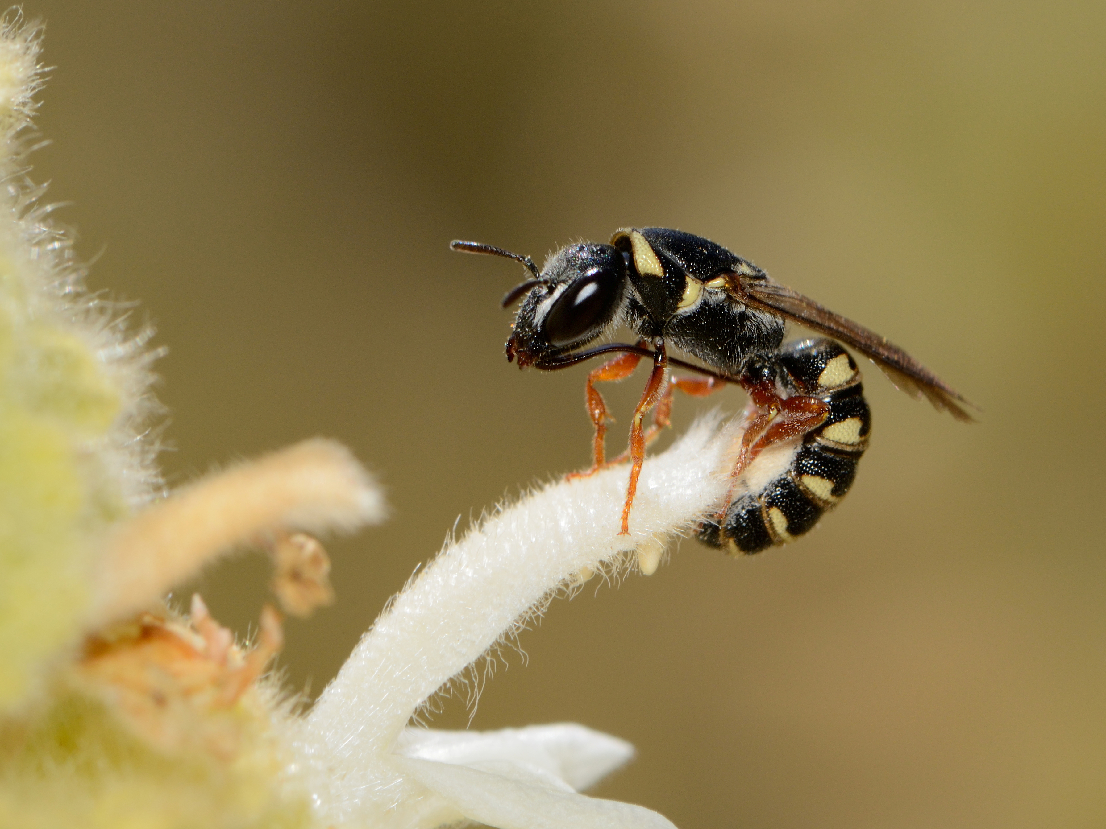 Ochreriades fasciatus Friese, female collecting pollen from Ballota undulata, Judean Foothills, Israel, June 6, 2013.